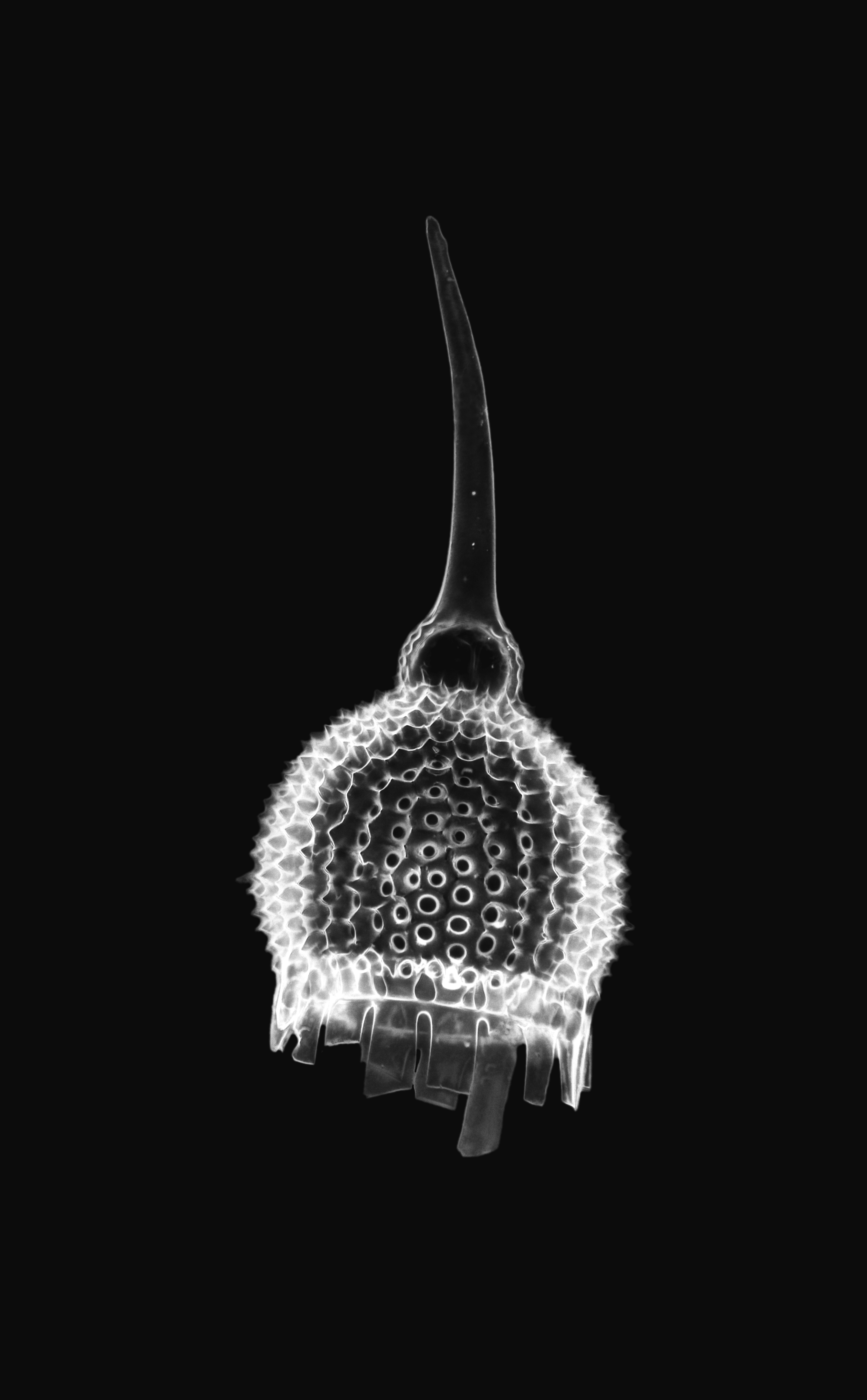 Magnification: 400x, bright field (negative image), stacked image Fundort / Site: Barbados Alter / Age: approx. 32-35 million years (late Eocene - early Oligocene) Präparation / Preparation: Andreas Drews, 2017 Radiolarians are unicellulars of diameter 0.1–0.2 mm that produce intricate mineral skeletons, typically with a central capsule dividing the cell into the inner and outer portions of endoplasm and ectoplasm.The elaborate mineral skeleton is usually made of silica. They are found as zooplankton throughout the ocean, and their skeletal remains make up a large part of the cover of the ocean floor as siliceous ooze. Due to their rapid turn-over of species, they represent an important diagnostic fossil found from the Cambrian onwards. (Source: Wikipedia) This is a stacked image, made by using a microscope and composed of dozens of single photos at different focus levels. For any information about stacking technique, please see